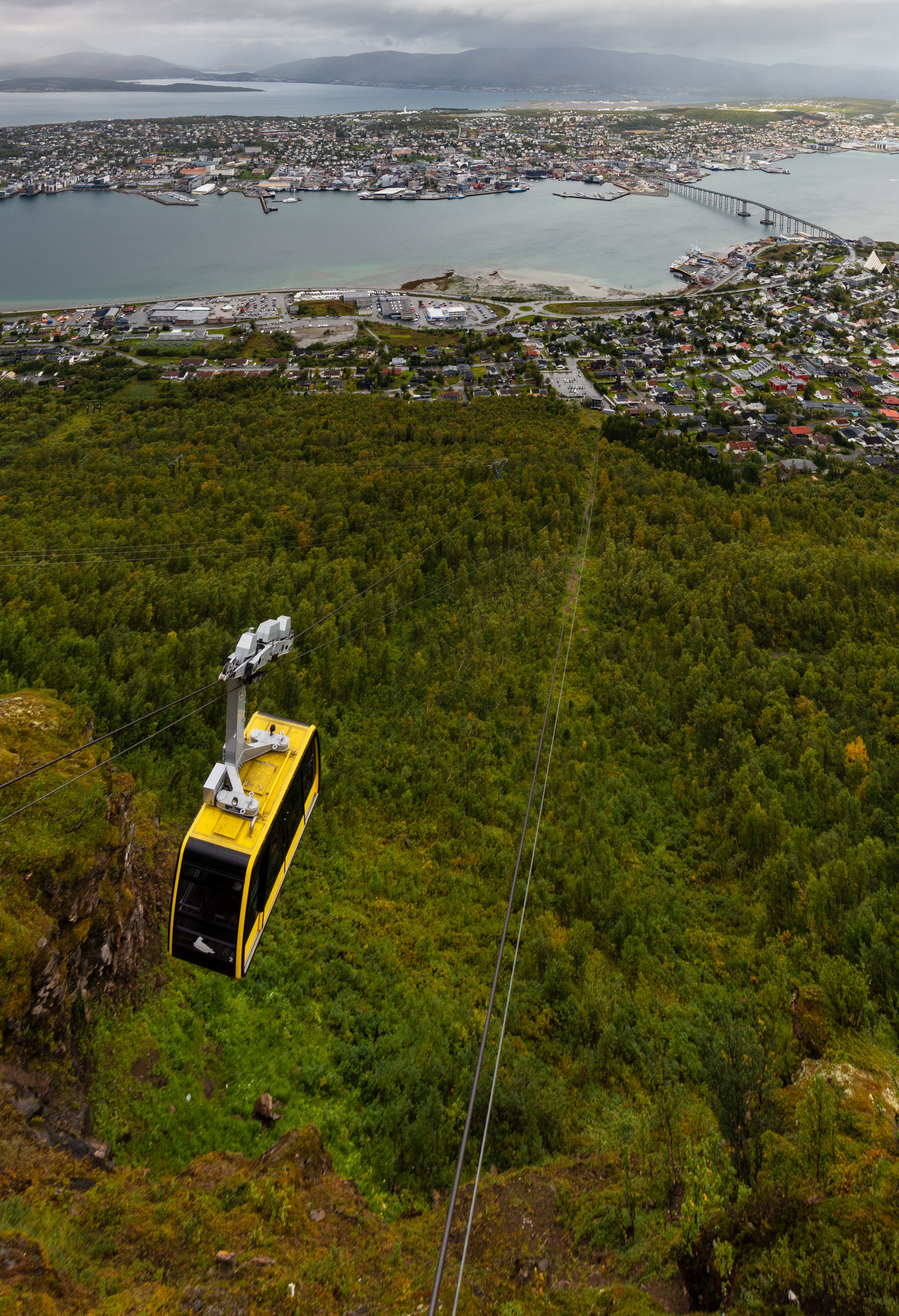 Cable car, Tromsø, Norway